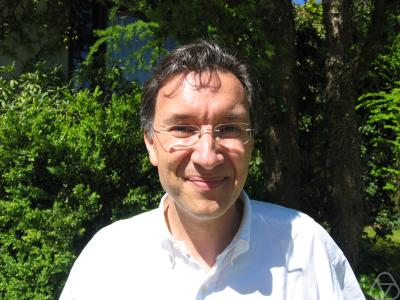 Mathematician Alain-Sol Sznitman in Oberwolfach, 2005.